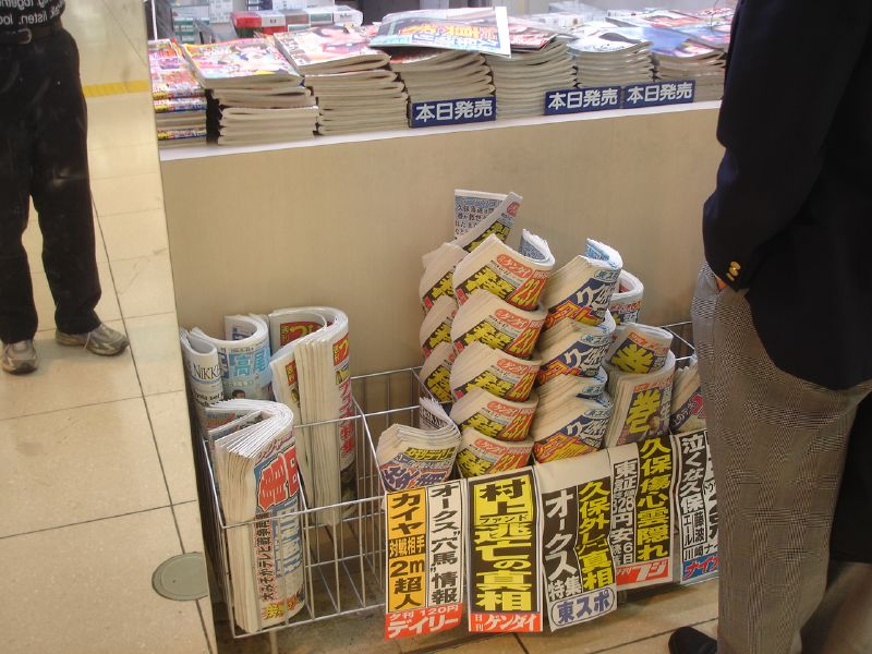 Newspaper stand in kiosk at Tôkyô StationNo English newspapers at Tokyo station